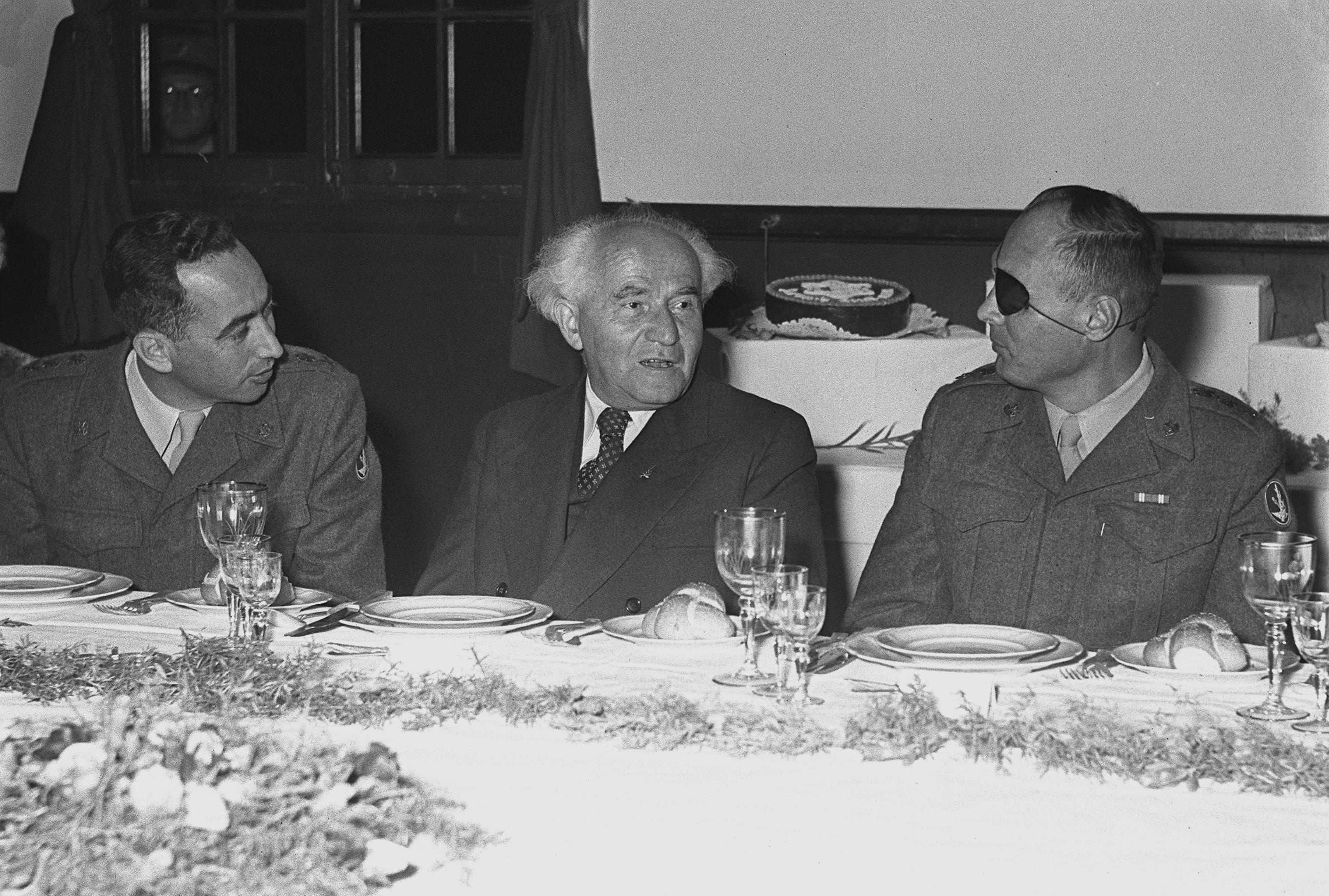 Pm David Ben Gurion attending a dinner at Bahad 4 during which an exchange ceremony was held between the outgoing chief of staff Maklef & the incoming, Dayan. Depicted people: Mordechai Maklef, David Ben-Gurion and Moshe Dayan